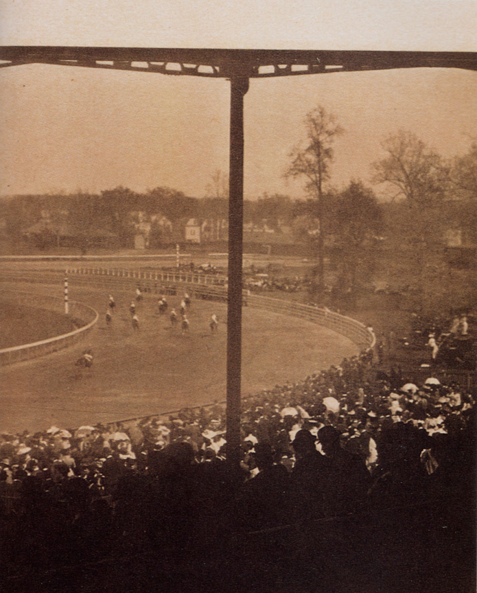 "Going to the Start" by Alfred Stieglitz